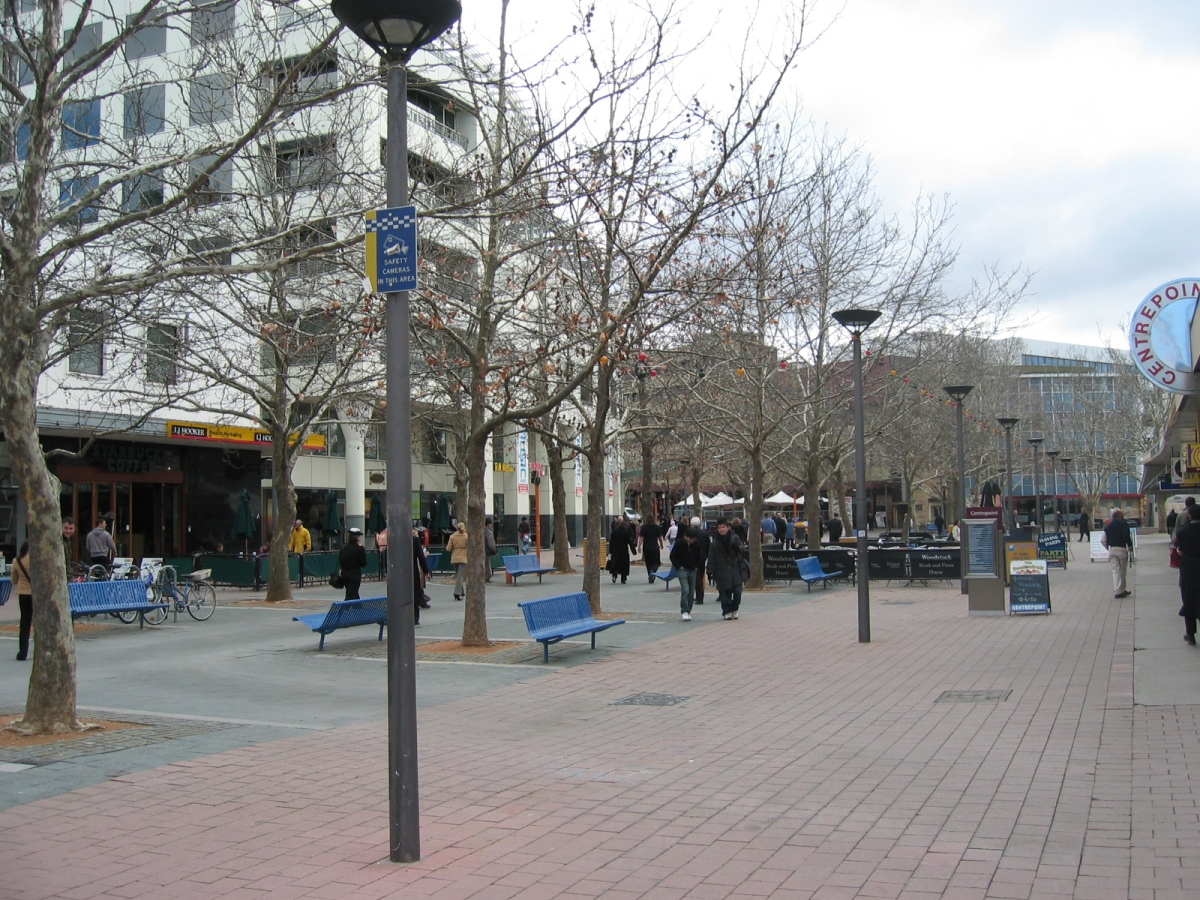 City Walk in Civic, Australian Capital Territory. Photo taken by User:Adz on 11 Aug 2005.